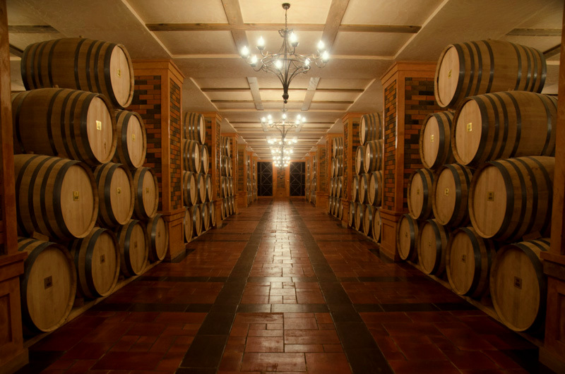 MAP company wine cellars, Lenughi, Armenia.